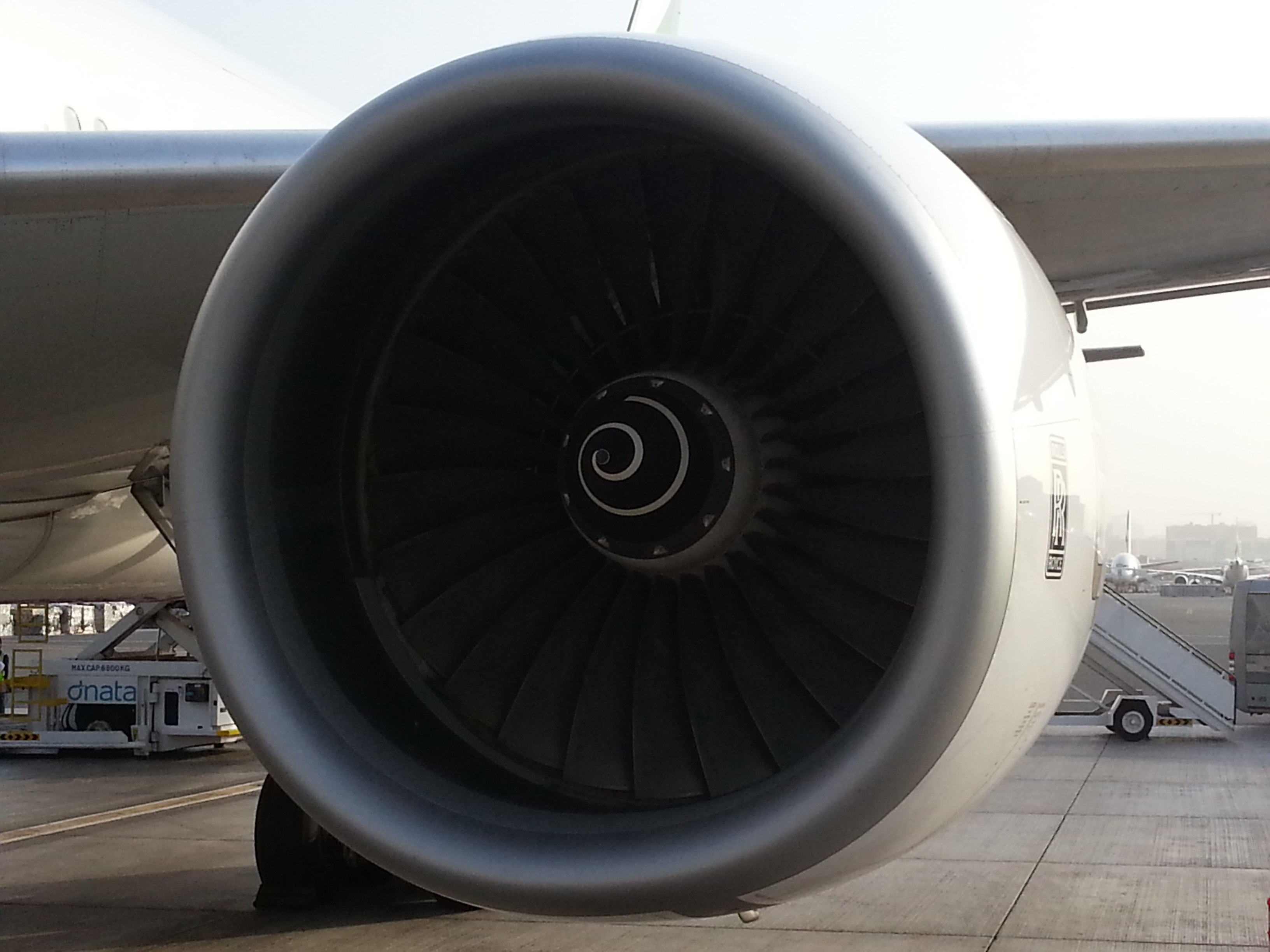 Rolls Royce Trent 800 mounted on Emirates Boeing 777-300 Reg. code: A6-EMM after landing in Dubai International Airport (DXB) [Flight Number EK824]